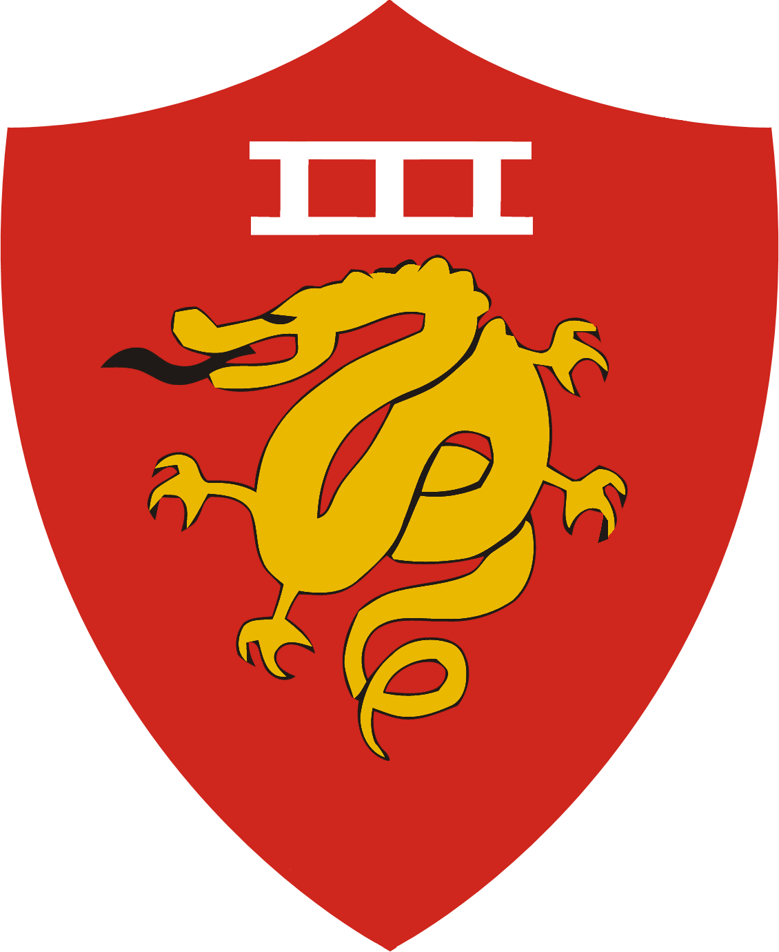 III Amphibious Corps insignia